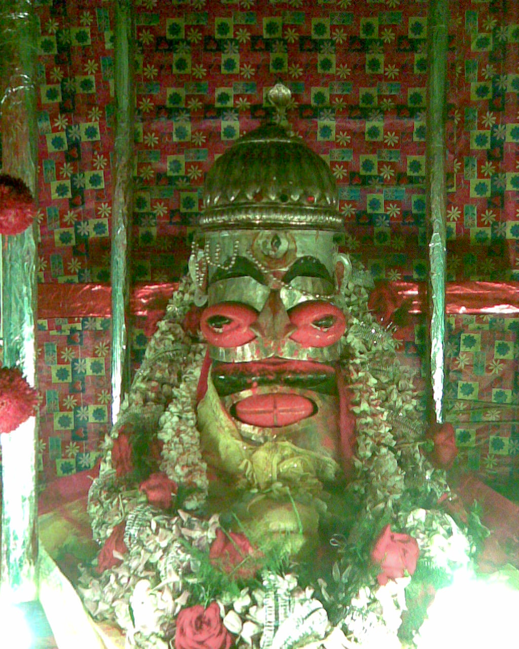 বুড়োশিব